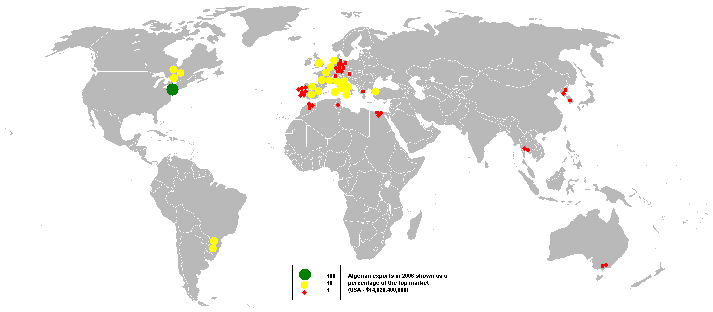 This bubble map shows the global distribution of Algerian exports in 2006 as a percentage of the top market (USA - $14,626,400,000). This map is consistent with incomplete set of data too as long as the top producer is known. It resolves the accessibility issues faced by colour-coded maps that may not be properly rendered in old computer screens. Data was extracted on 18th September 2007 from